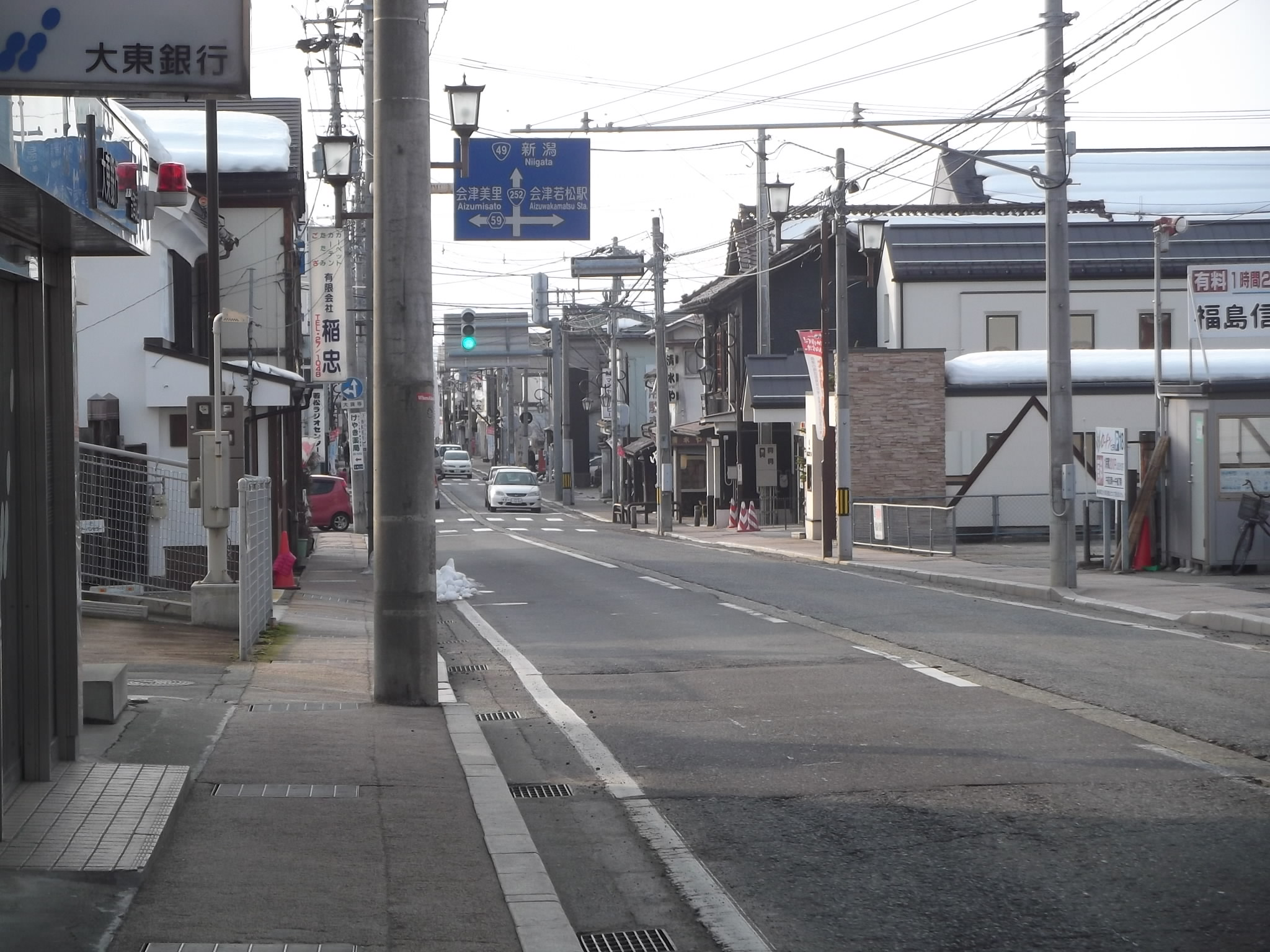 Landscape of Nanokamachi street at Aizuwakamatsu, Fukushima.